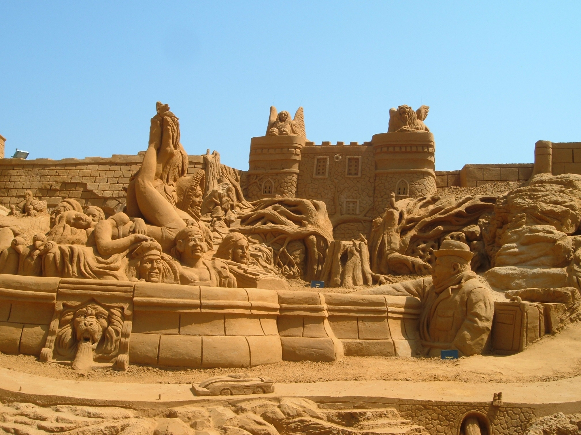 Beacoup sable :-)